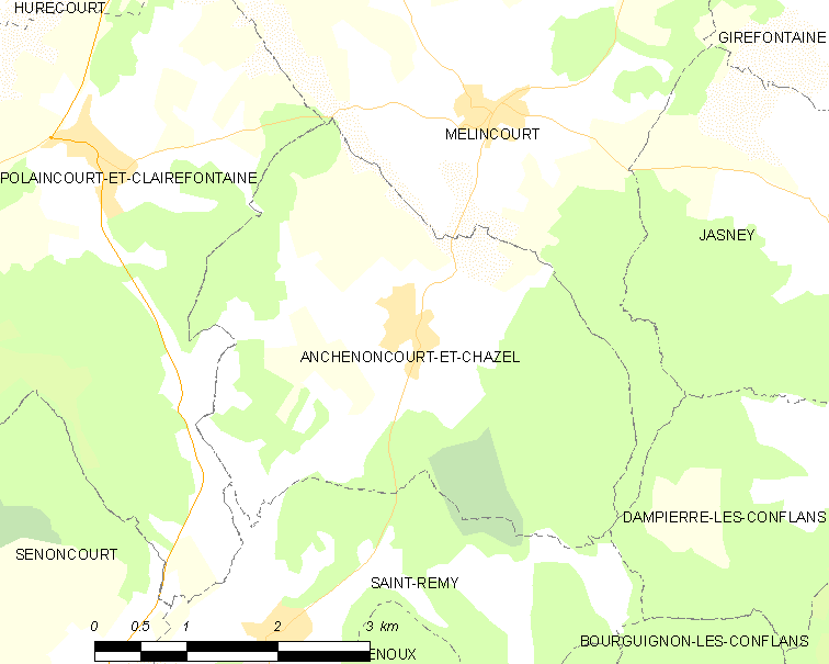 Map of French municipality